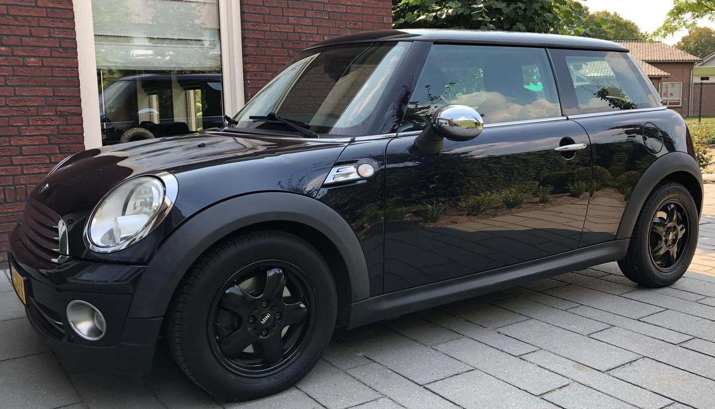 MiniOneR56